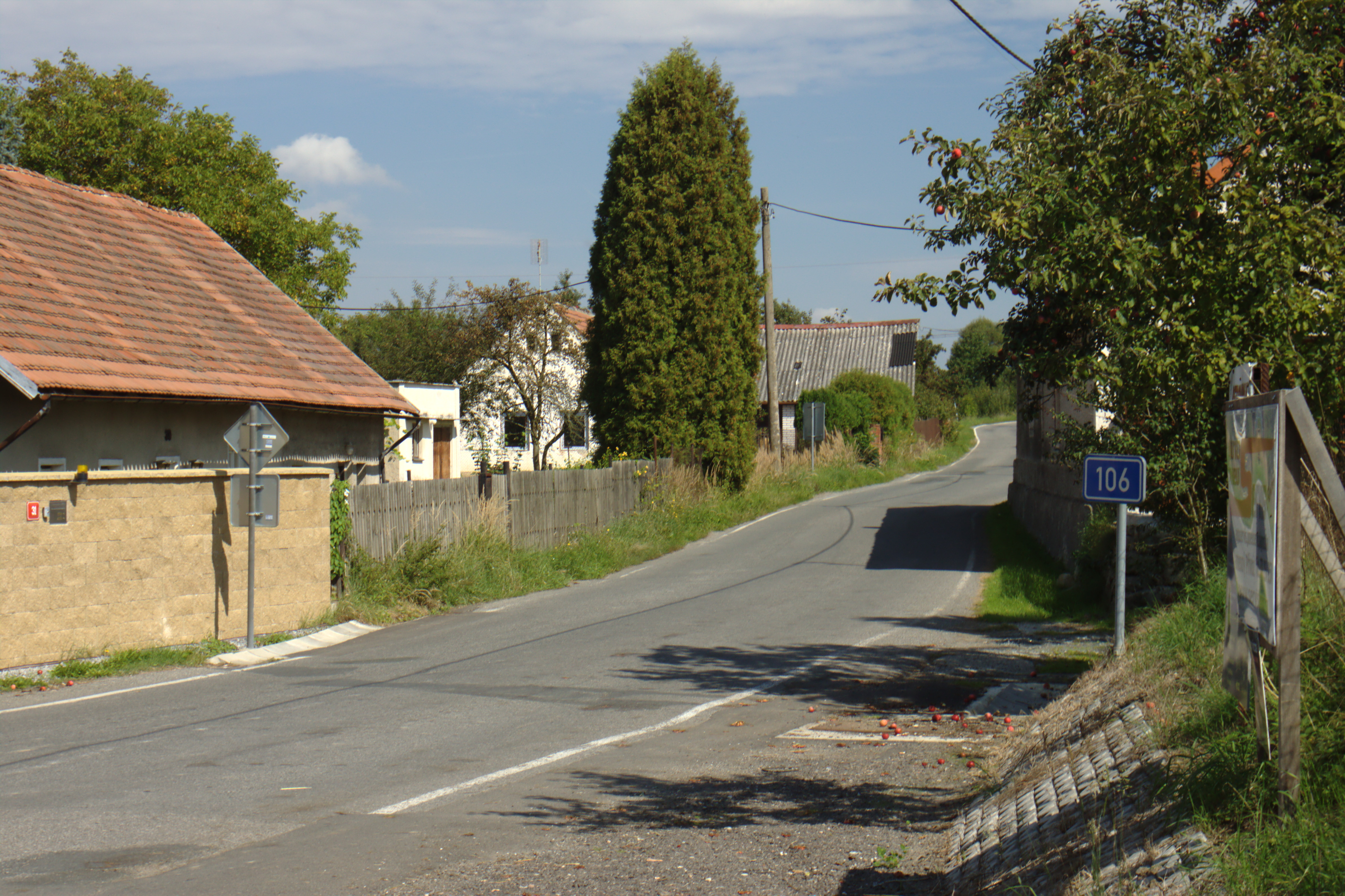 A road in the central part of the village of Krňany, Central Bohemia